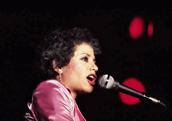 Janis Ian performing in National Stadium of Ireland, Dublin, 14th May, 1981. Photo: Eddie Mallin